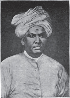 Potrait of C. V. Runganada Sastri